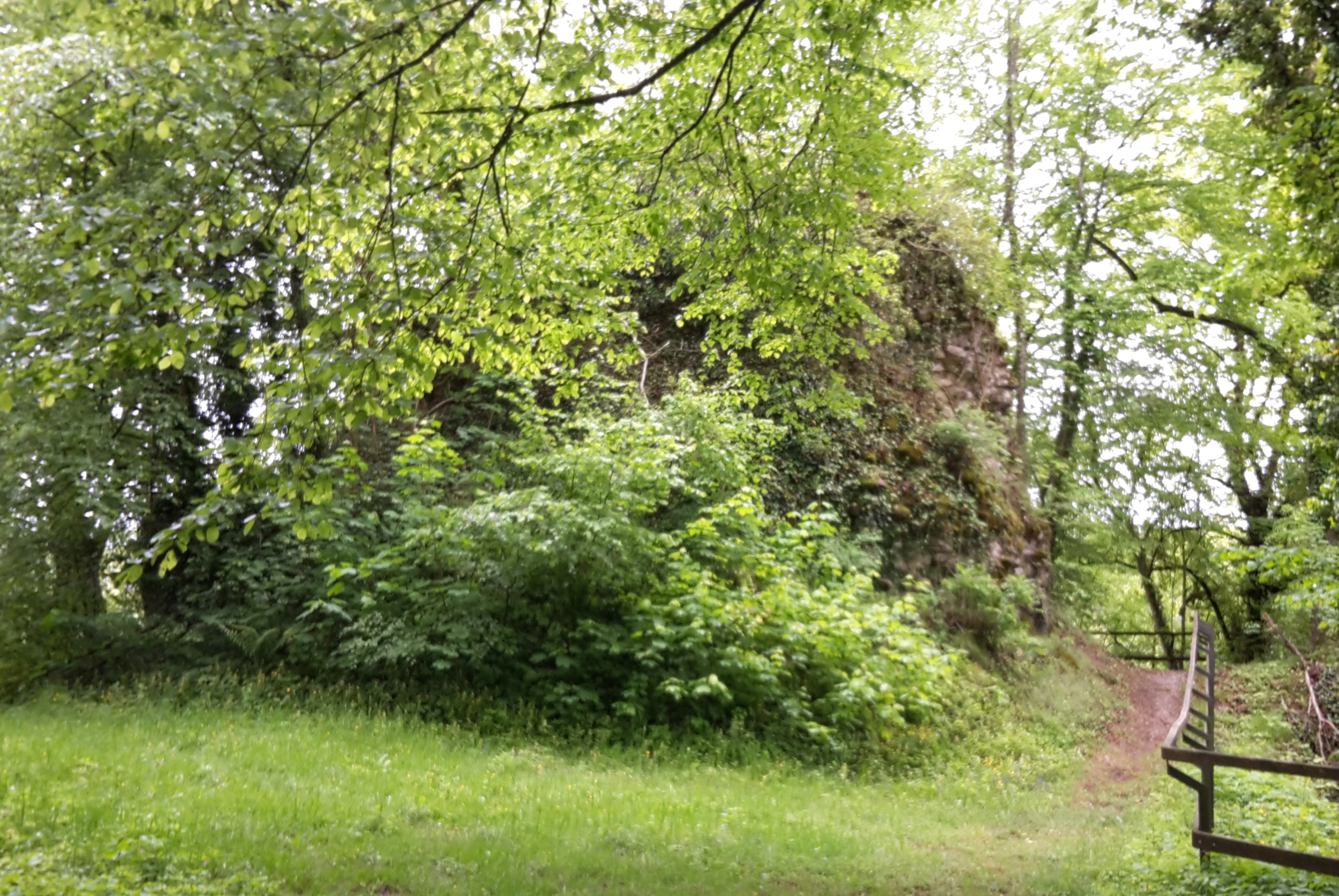 Castle ruin Frauenhaus in Neuburg (Inn)